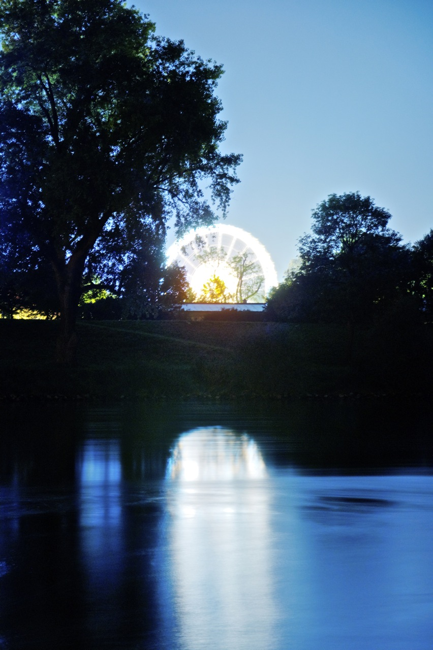 Gäubodenvolksfest 2011 - Riesenrad at Night